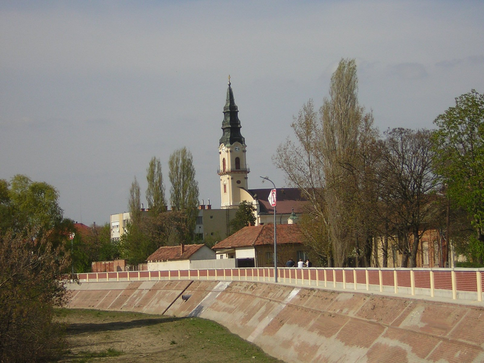 View of Kunszentmarton's centre with Körös & the St. Martin Roman Catholic church (1781-1784), one of the tallest church in Hungary